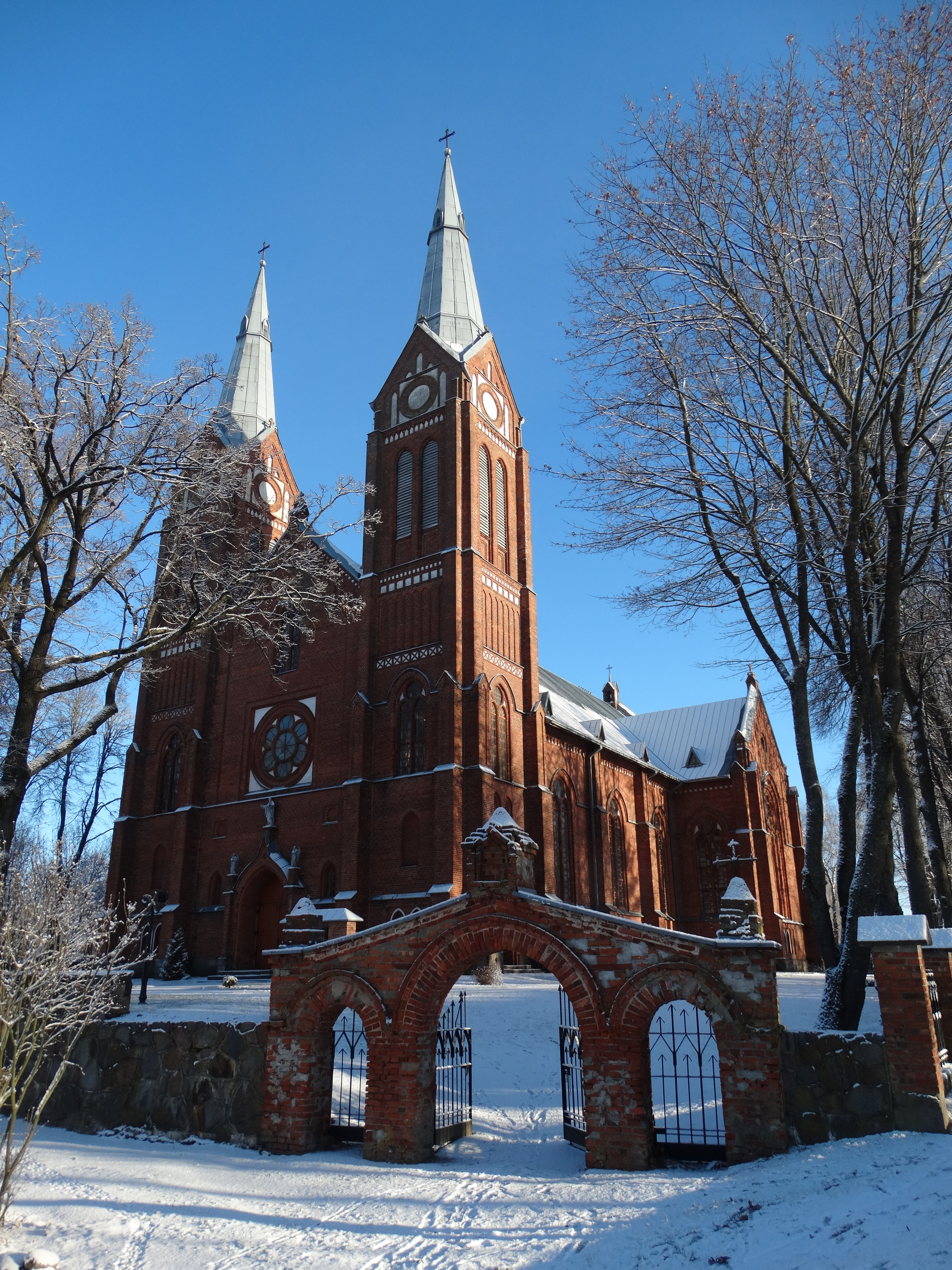 Holy Trinity Church, Jurbarkas, Lithuania